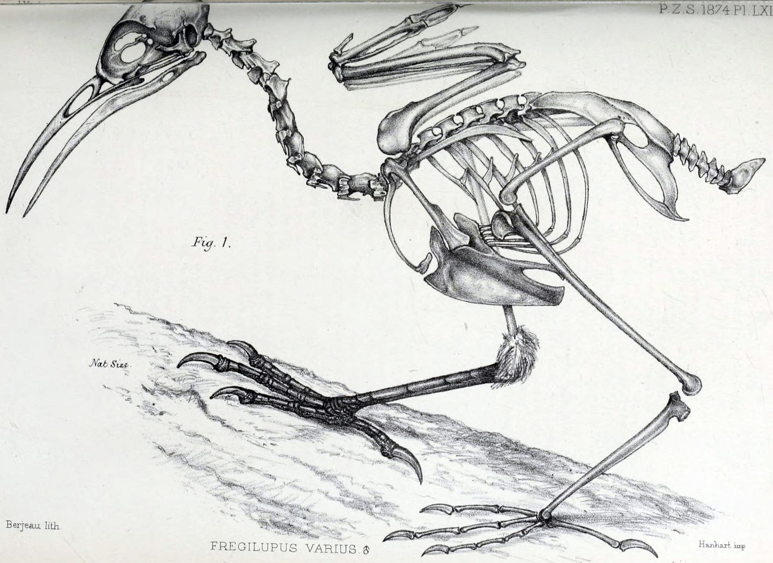 From On the Skeleton and Lineage of Fregilupus varius. Proceedings of the Zoological Society of London.